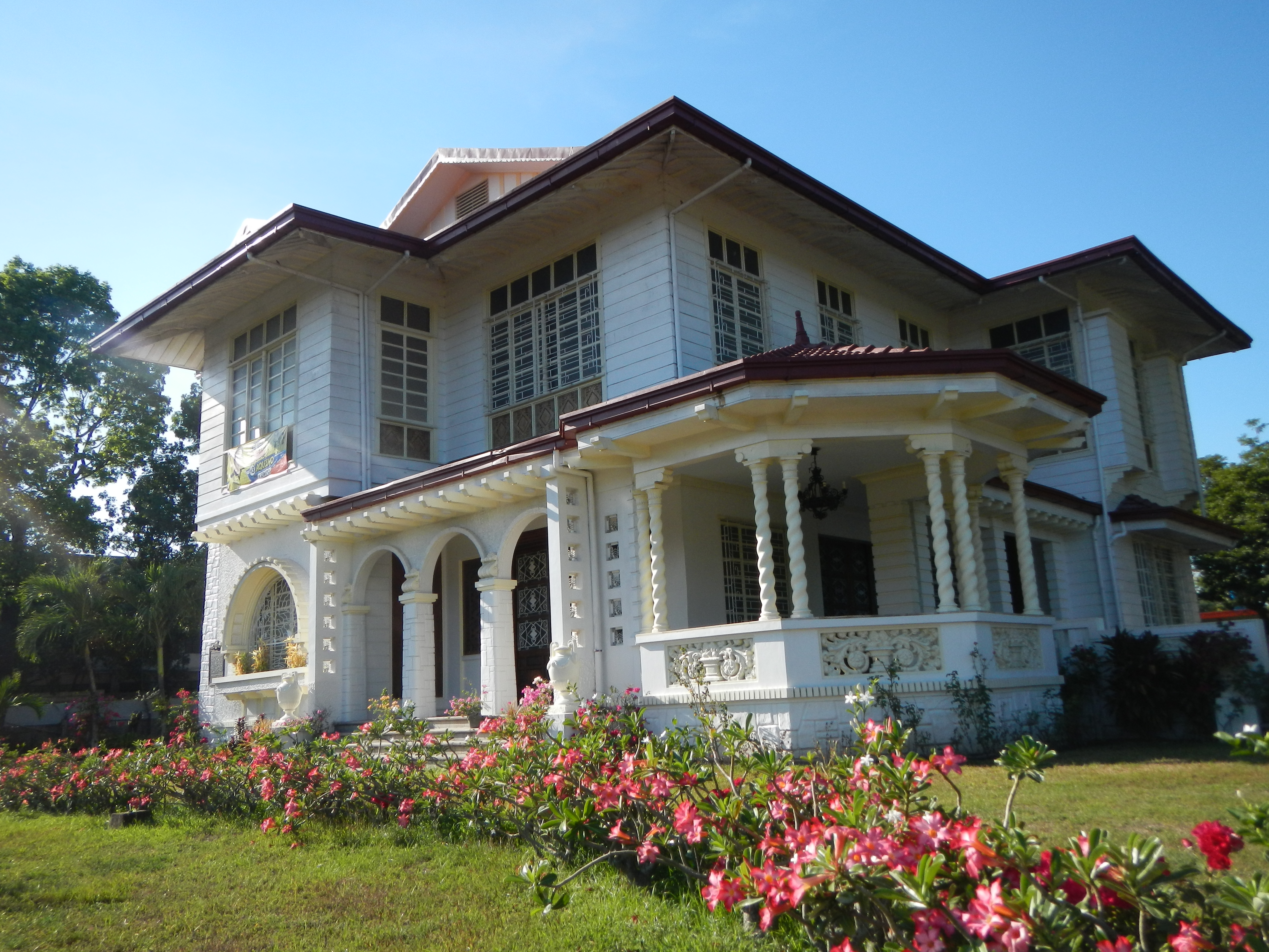 Aquino Family Ancestral House-Concepcion Tarlac - Aquino family ancestral house in Concepcion, Tarlac. Aquino unveils historical marker at ancestral home in Tarlac September 10th, 2011[1] The National Historical Commission declared the Aquino house as a historical site in 1987 because of its significance as the home of patriots from the Aquino family based on its Board Resolution No. 1 Series of 1987. Three generations of Aquinos lived in the house since it was built in 1939, according to Malacañang.[2][3] 72-year-old house[4] Ancestral houses of the Philippines[5] Concepcion, Tarlac[6] Benigno Aquino, Jr.[7]Benigno Simeon Aquino III [8] Benigno Aquino, Sr. [9]